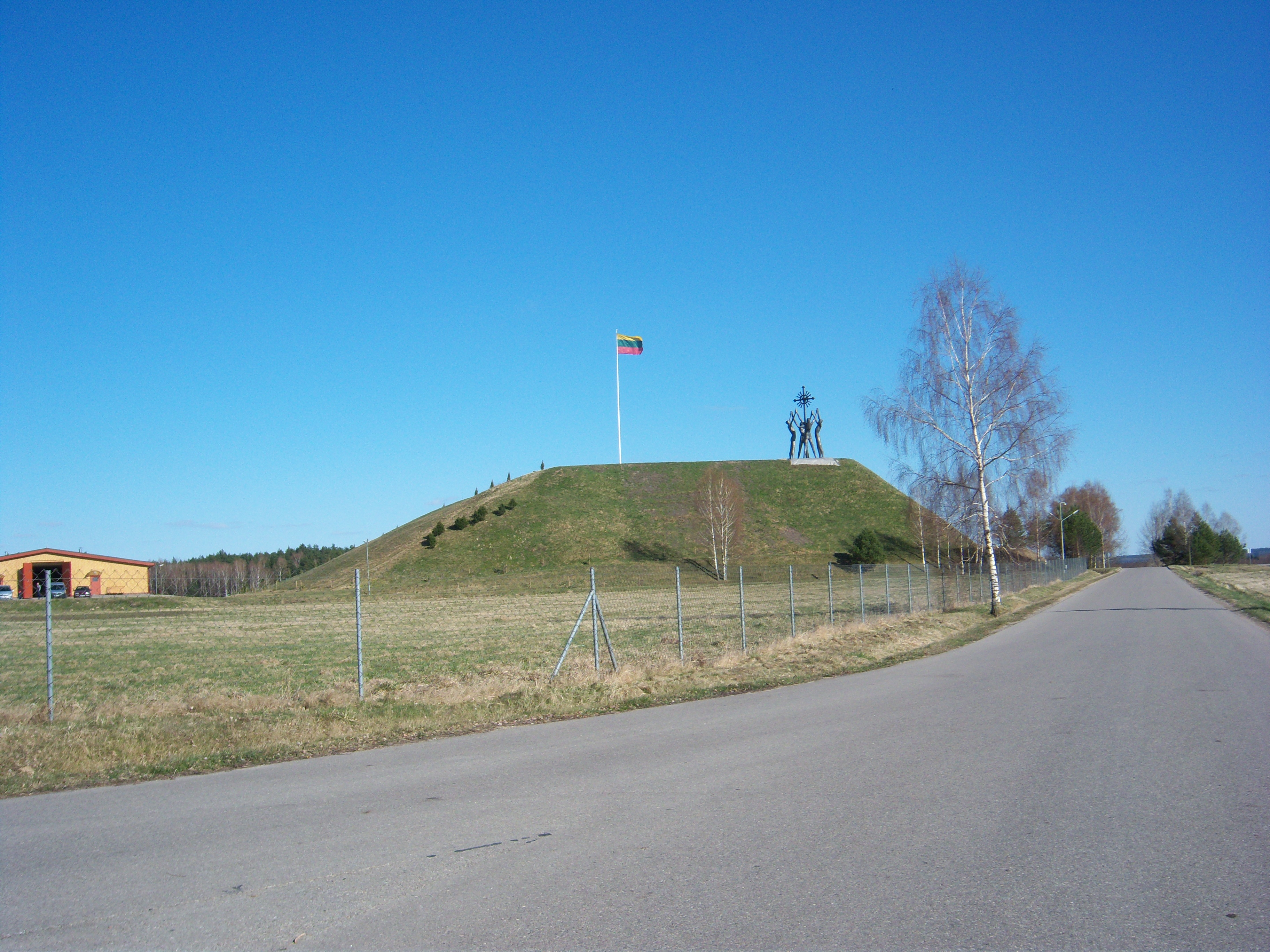 Harmony Park, Vazgaikiemis, Prienai district, Lithuania